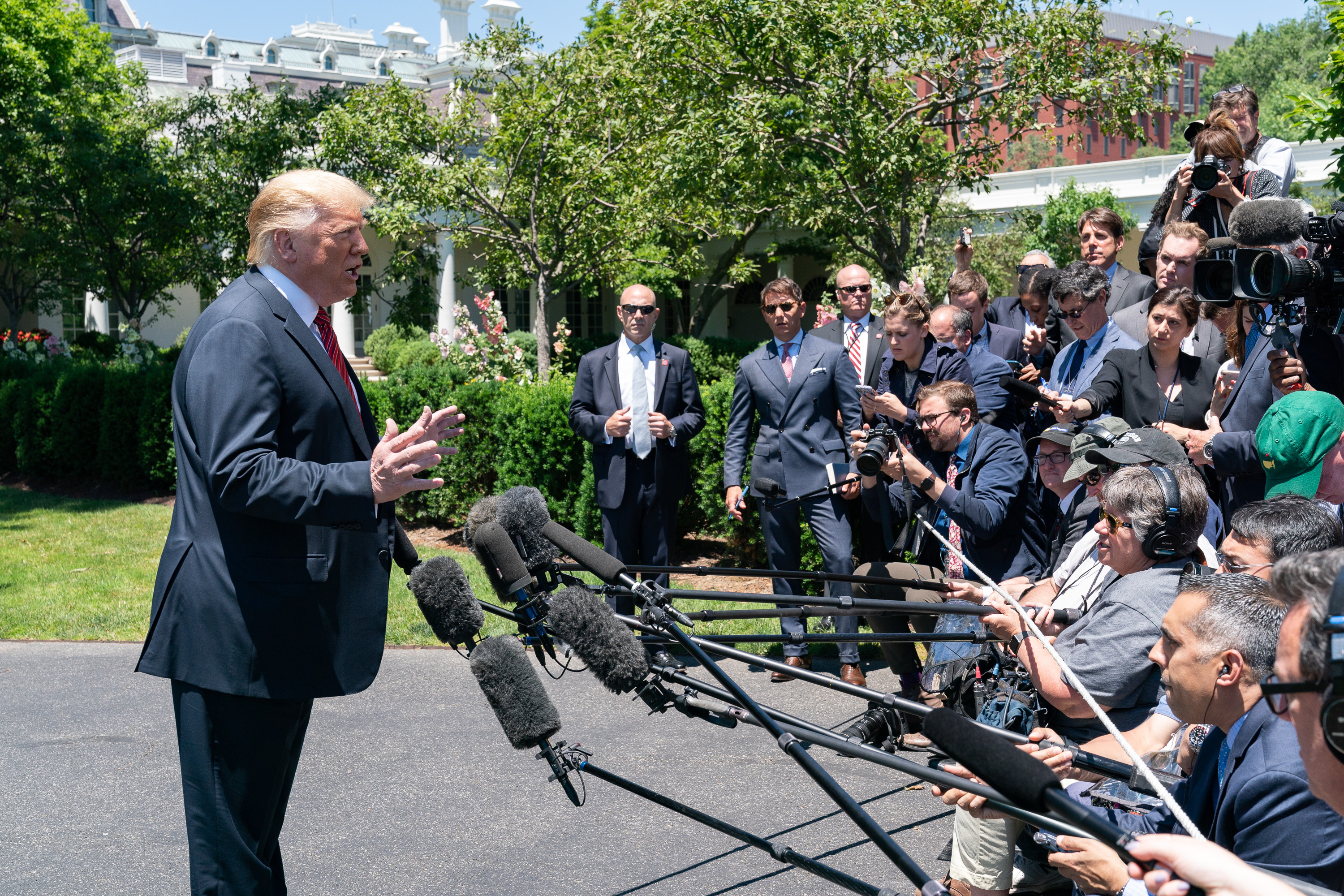 President Donald J. Trump speaks with reporters along the South Lawn driveway of the White House Tuesday, June 11, 2019, before boarding Marine One for his flight to Joint Base Andrews, Md., to begin his trip to Iowa. (Official White House Photo by Joyce N. Boghosian)